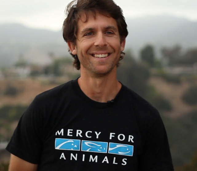 Josh Garrett hikes the Pacific Crest Trail raising funds for animal protection organization, Mercy For Animals.